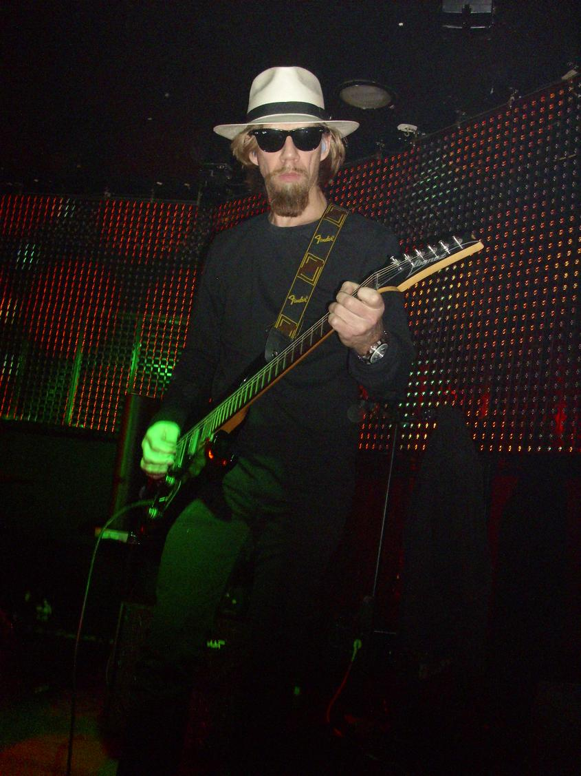 Paul Kostabi playing with Psychotica, Sala La Boite Madrid , 2 November 2009.